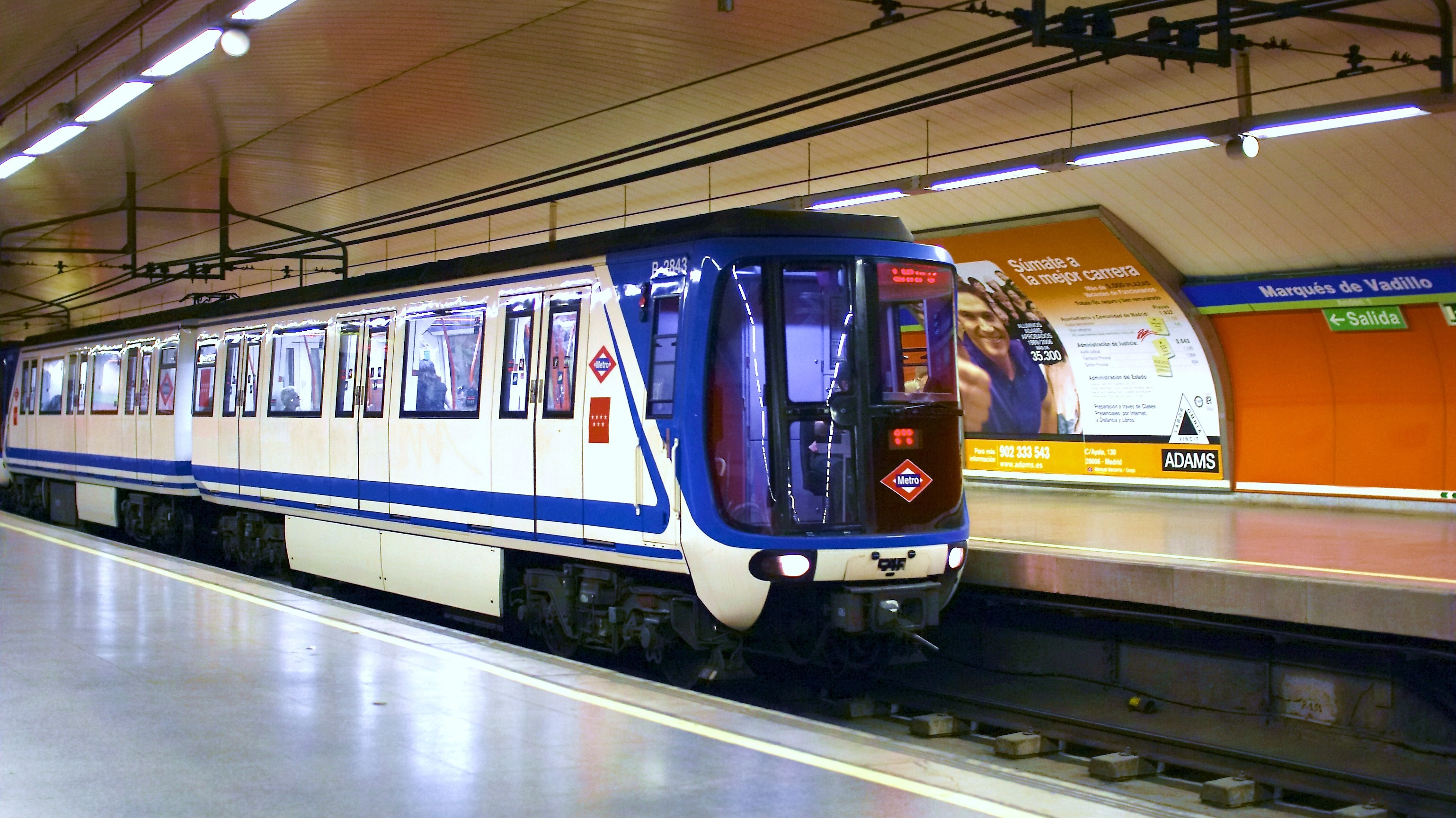 Madrid Metro, Marqués de Vadillo station.